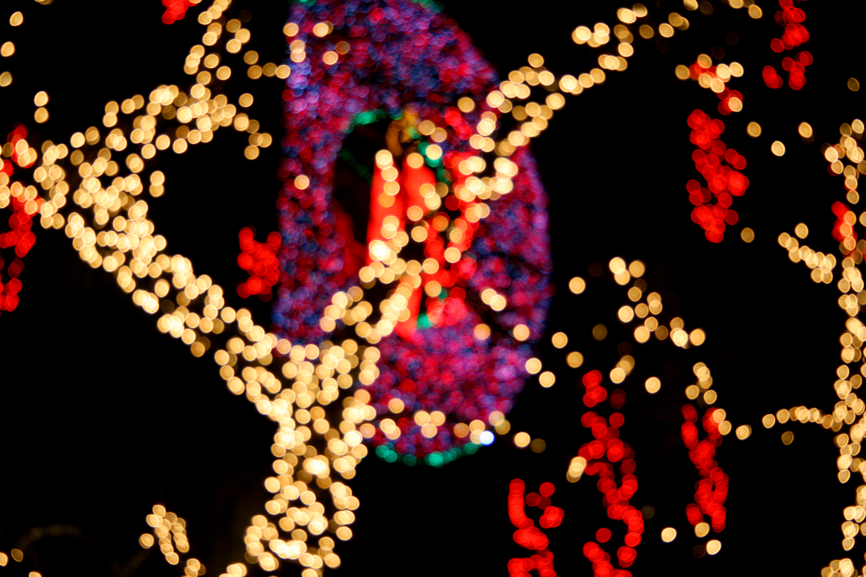 Christmas decorations and lights photographed such that they appear as bokeh.